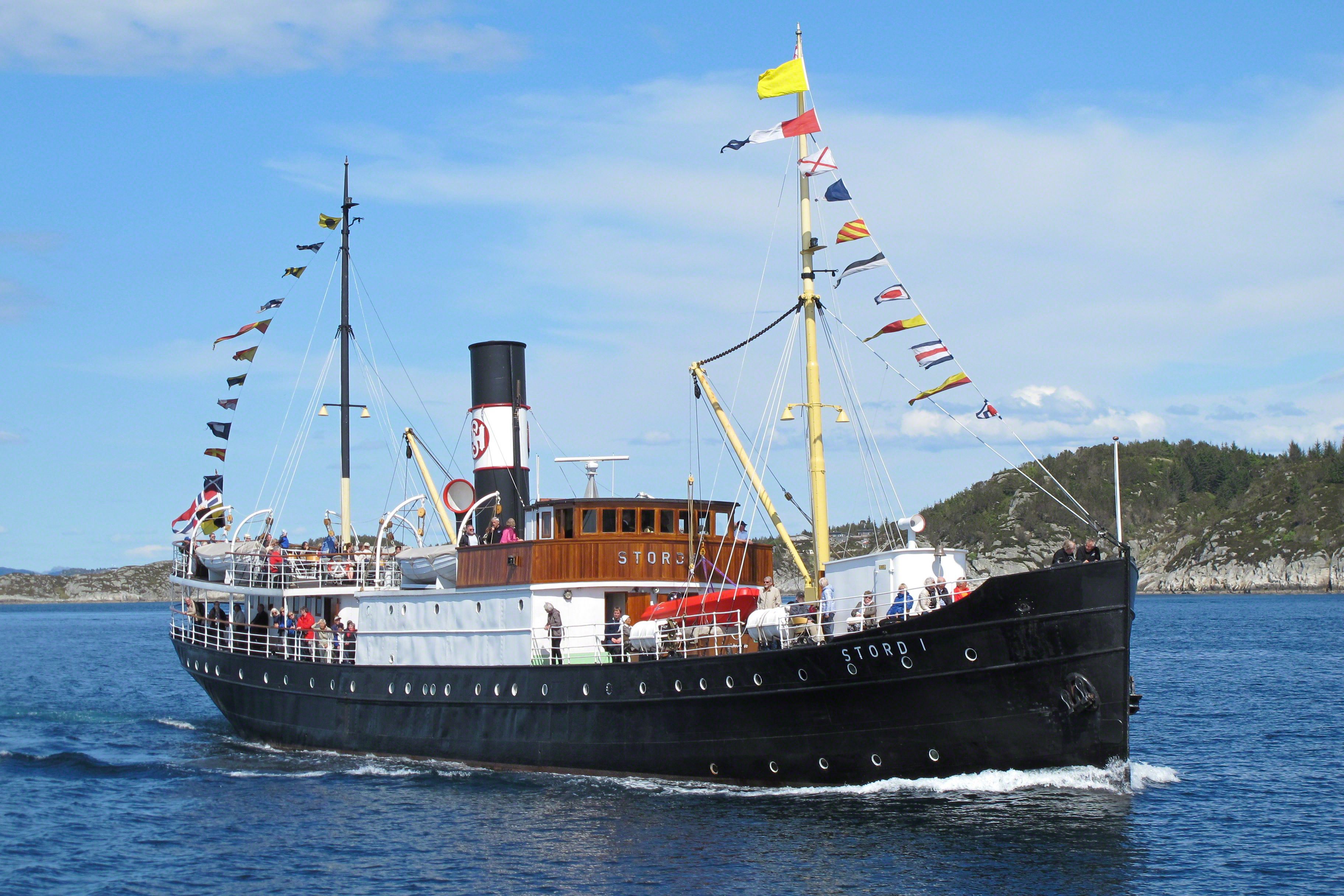 DS "Stord I" enroute from Bergen to Bekkjarvik in the spring 2016.